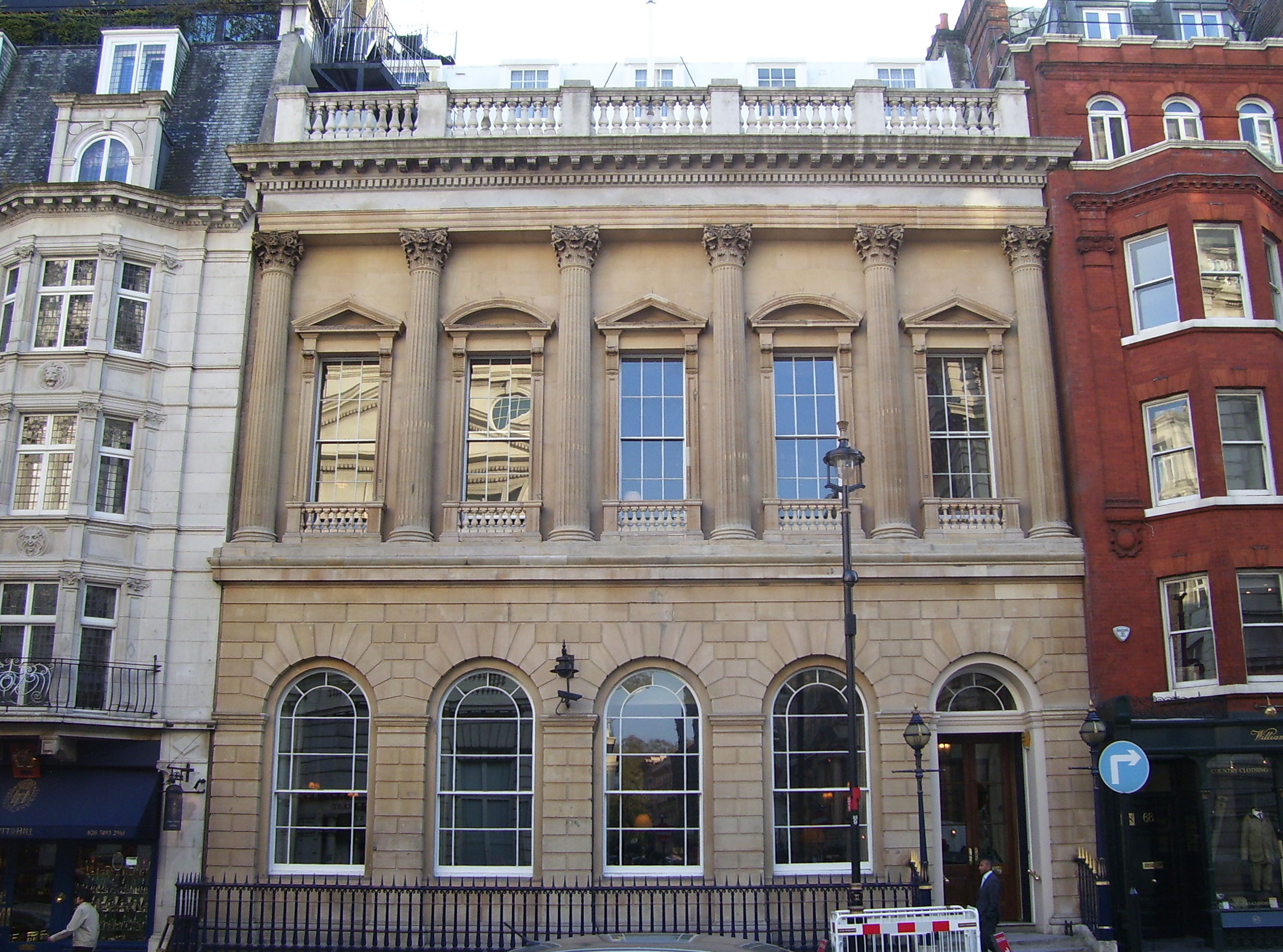 Building of Arthur's - has hosted the Carlton Club since 1943